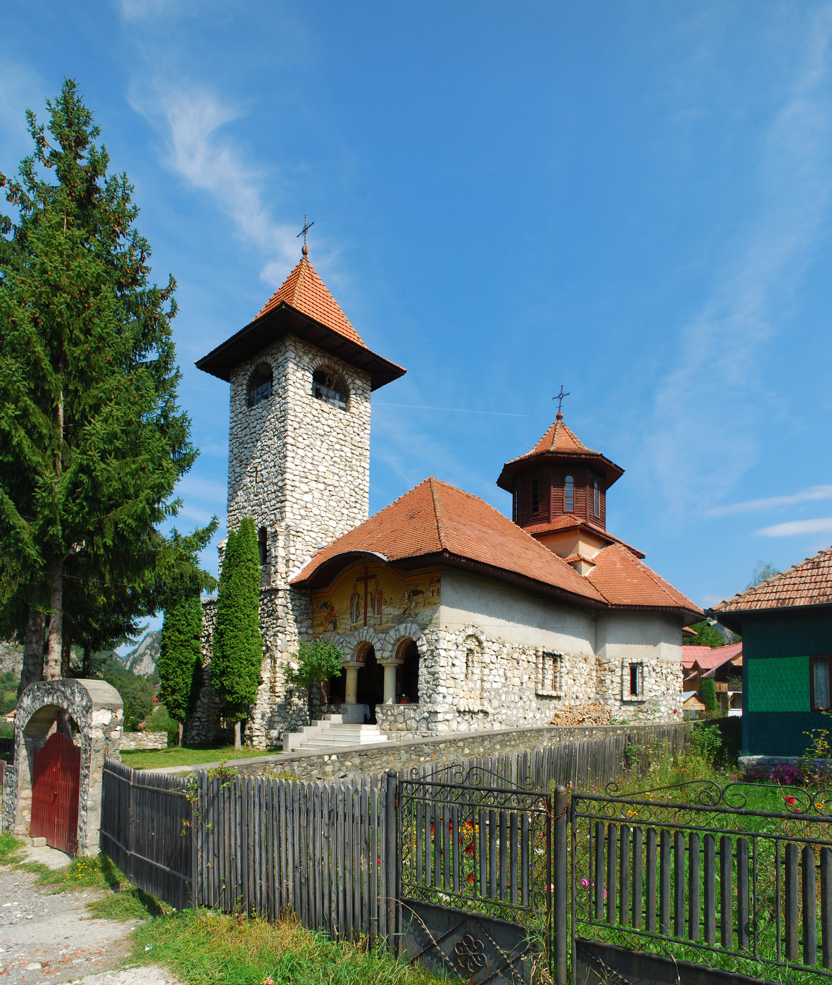 Holy Emperors' church in Podu Dâmboviței, Argeș County, RomaniaRomână: Biserica Sfinții Împărați din Podu Dâmboviței, județul Argeș, România